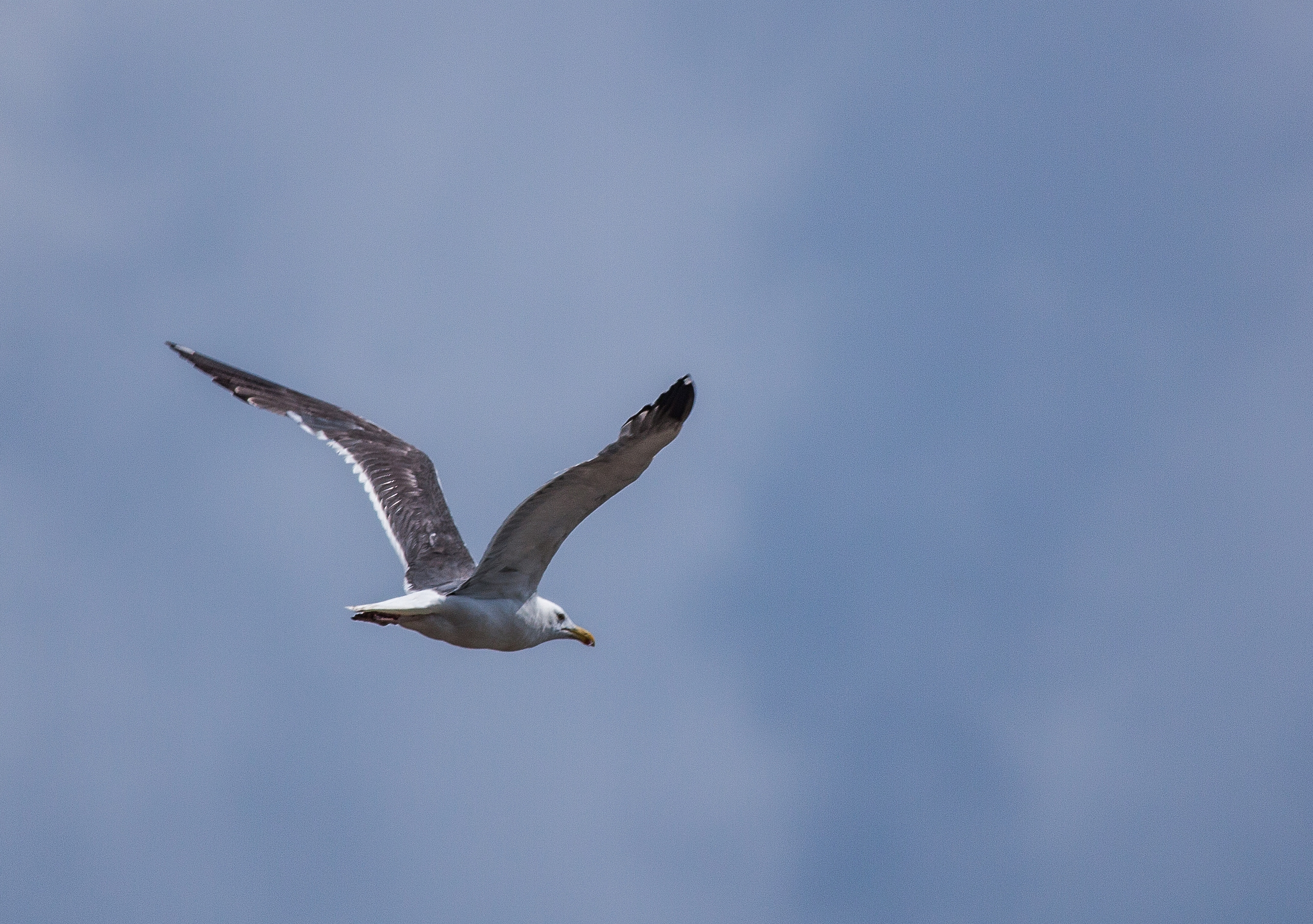 Heuglin's Gull in flight, Vasai, Maharashtra, India